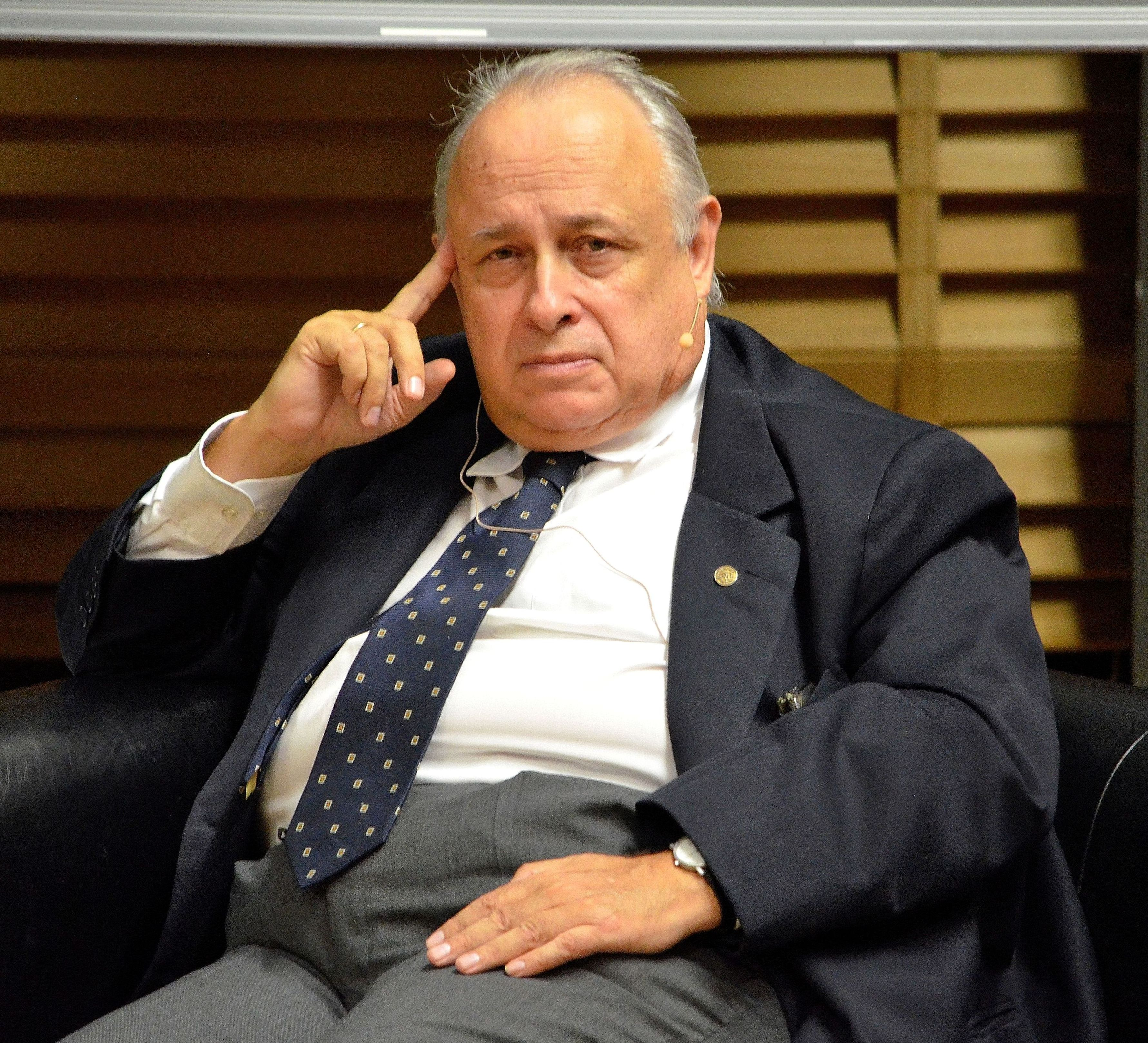 Professor Jerzy Axer during the debate "Leonardo da Vinci in a corporation i.e. how to become a Renaissance man nowadays?" organized by the Open University of the Warsaw University